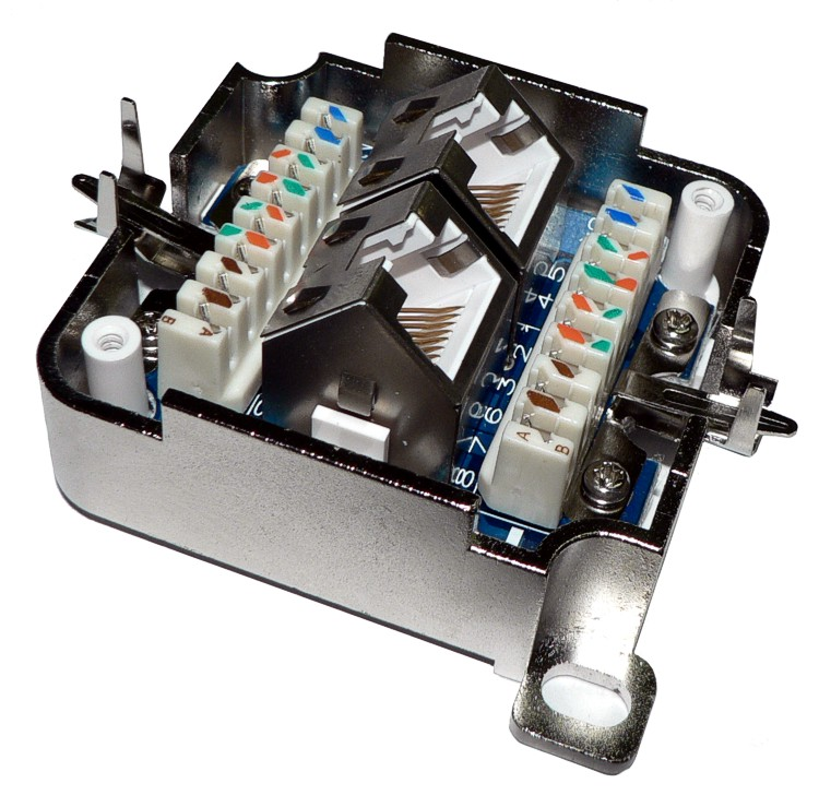 RJ-45 shielded double